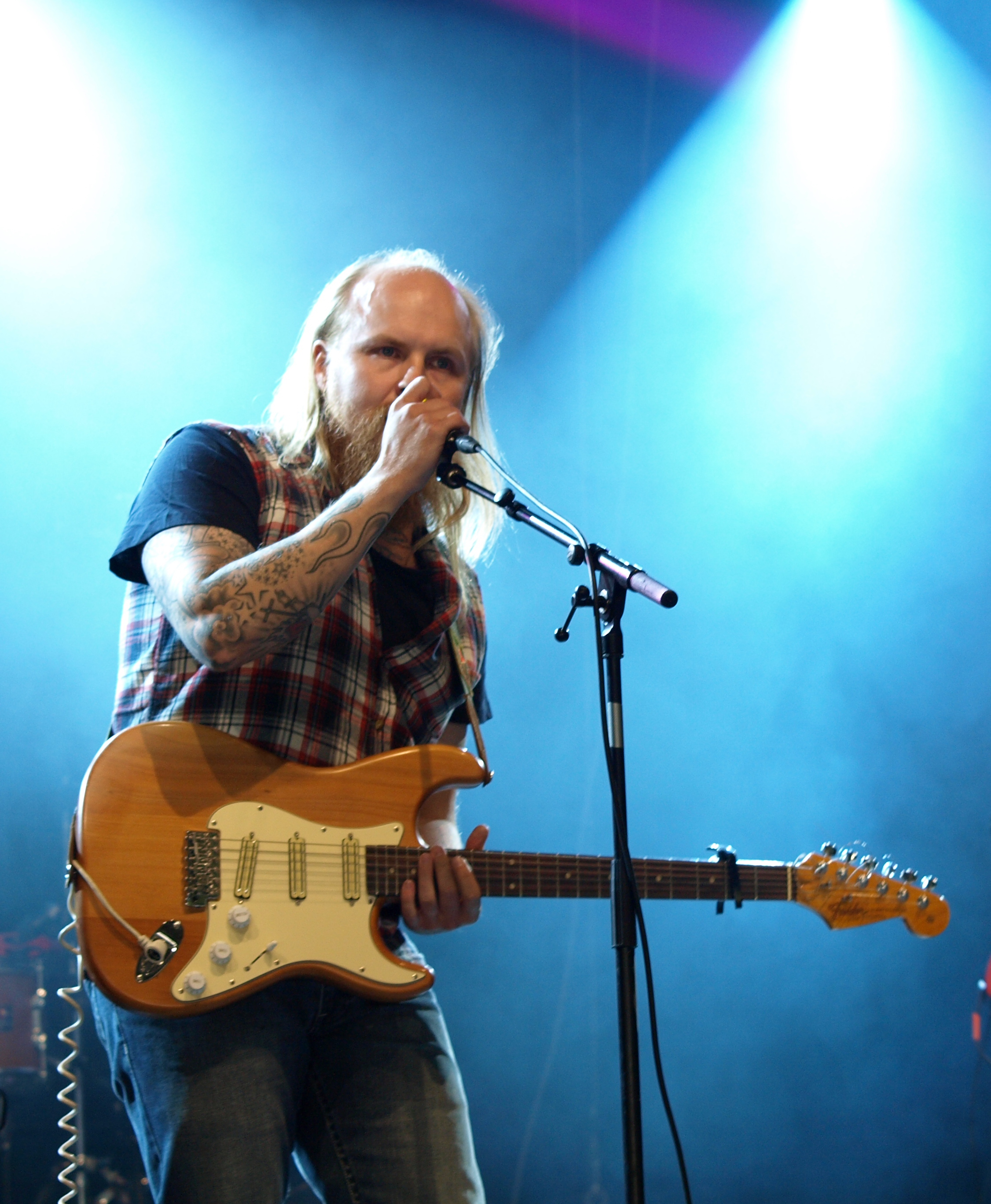 Finnish musician Antero Lindgren and his band at Provinssirock 2013